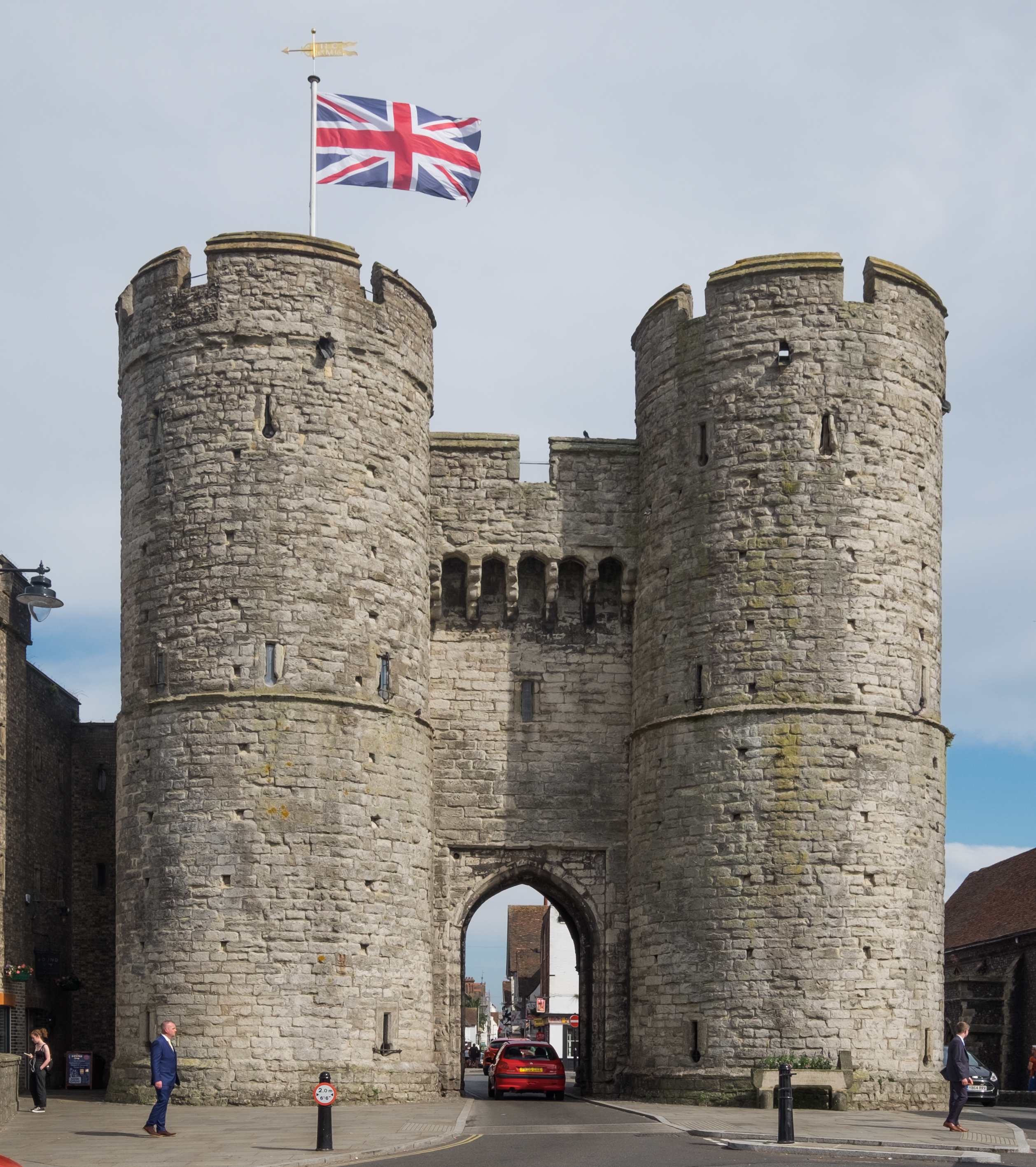 Westgate, Canterbury. This 14th century gate is a grade I listed building in England.